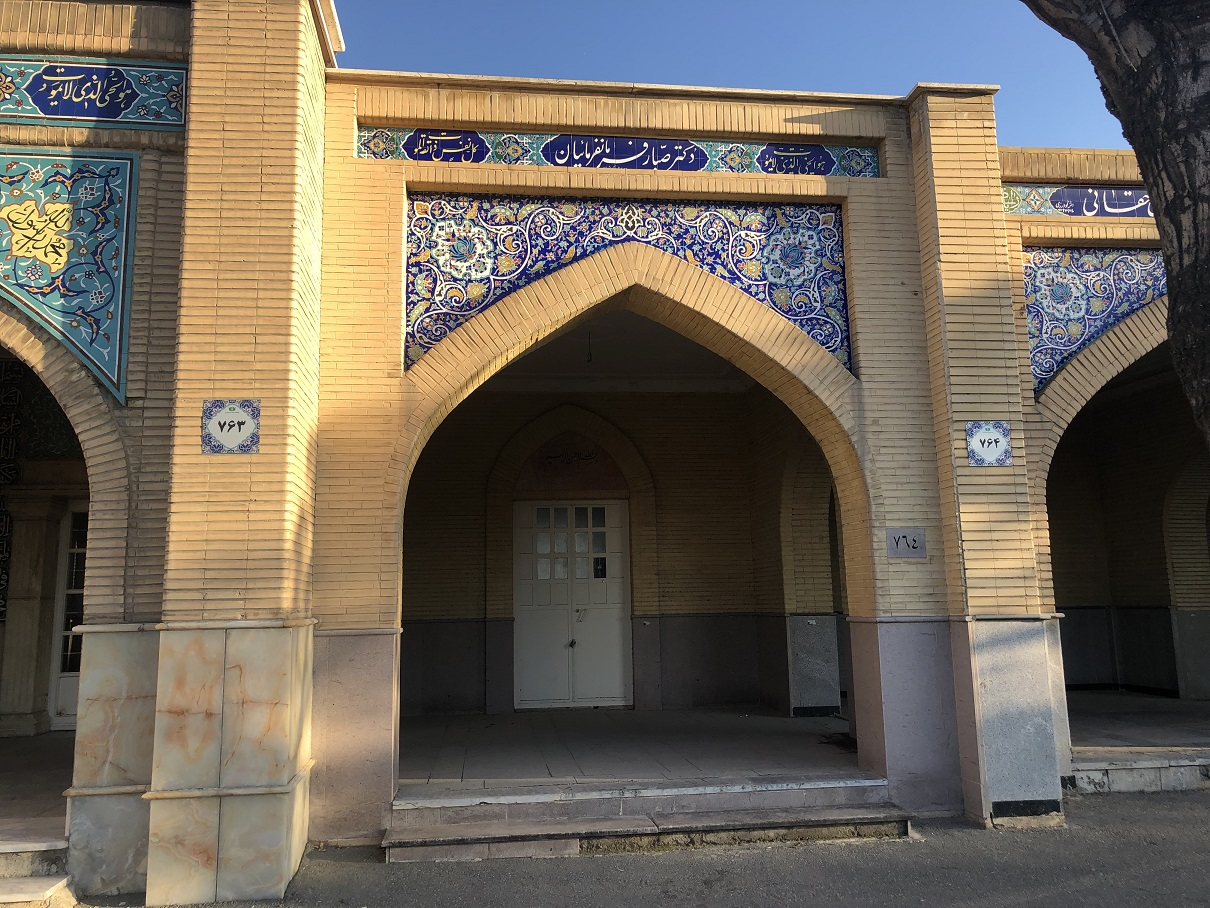 Beheshte Zahra Cemetery